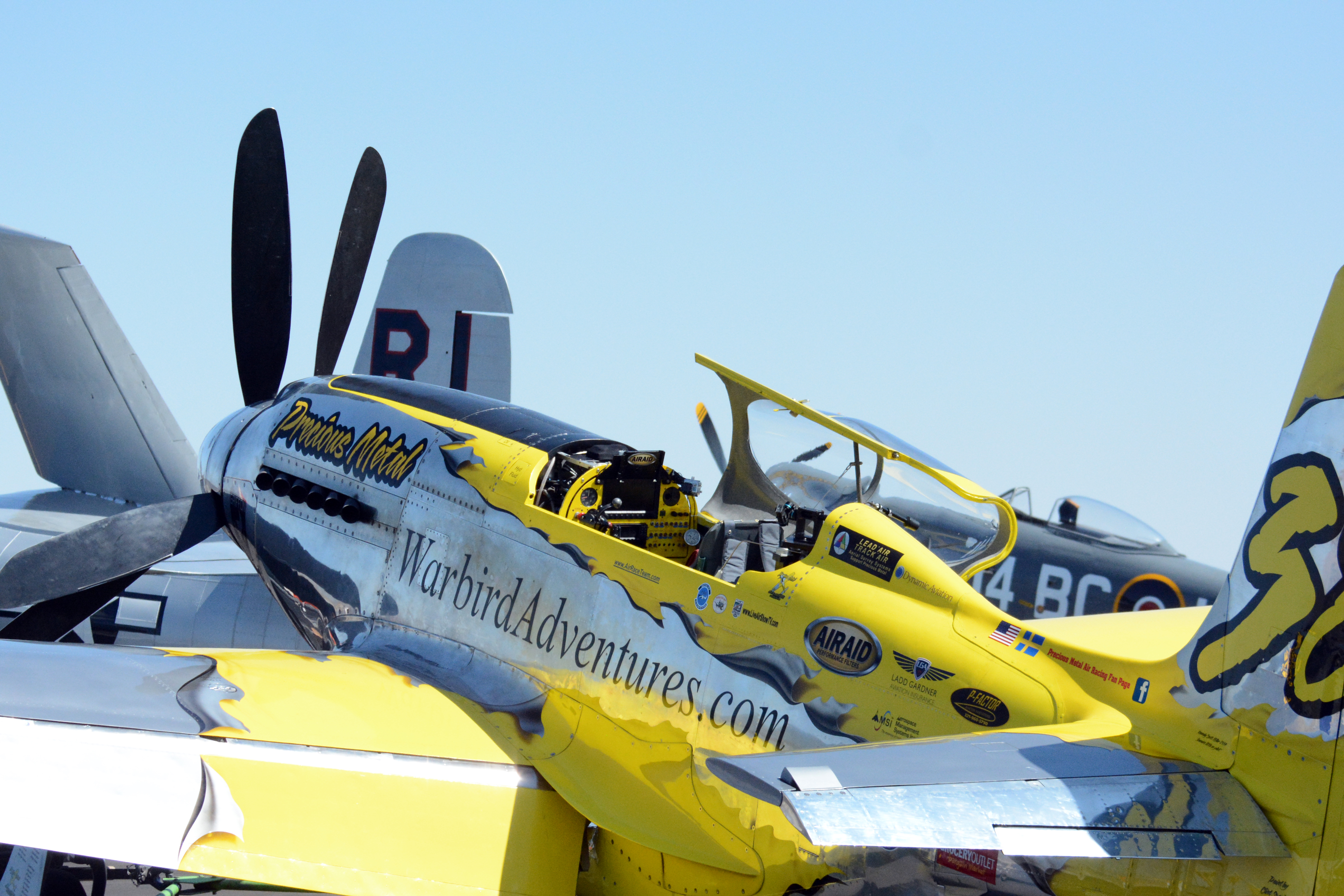 25 P 51XR Mustang N6WJ Precious Metal Reno Air Race 2014 pits photo D Ramey Logan